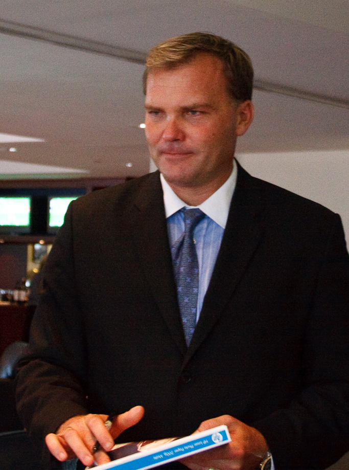 An image of American football quarterback Scott Zolak in 2009.